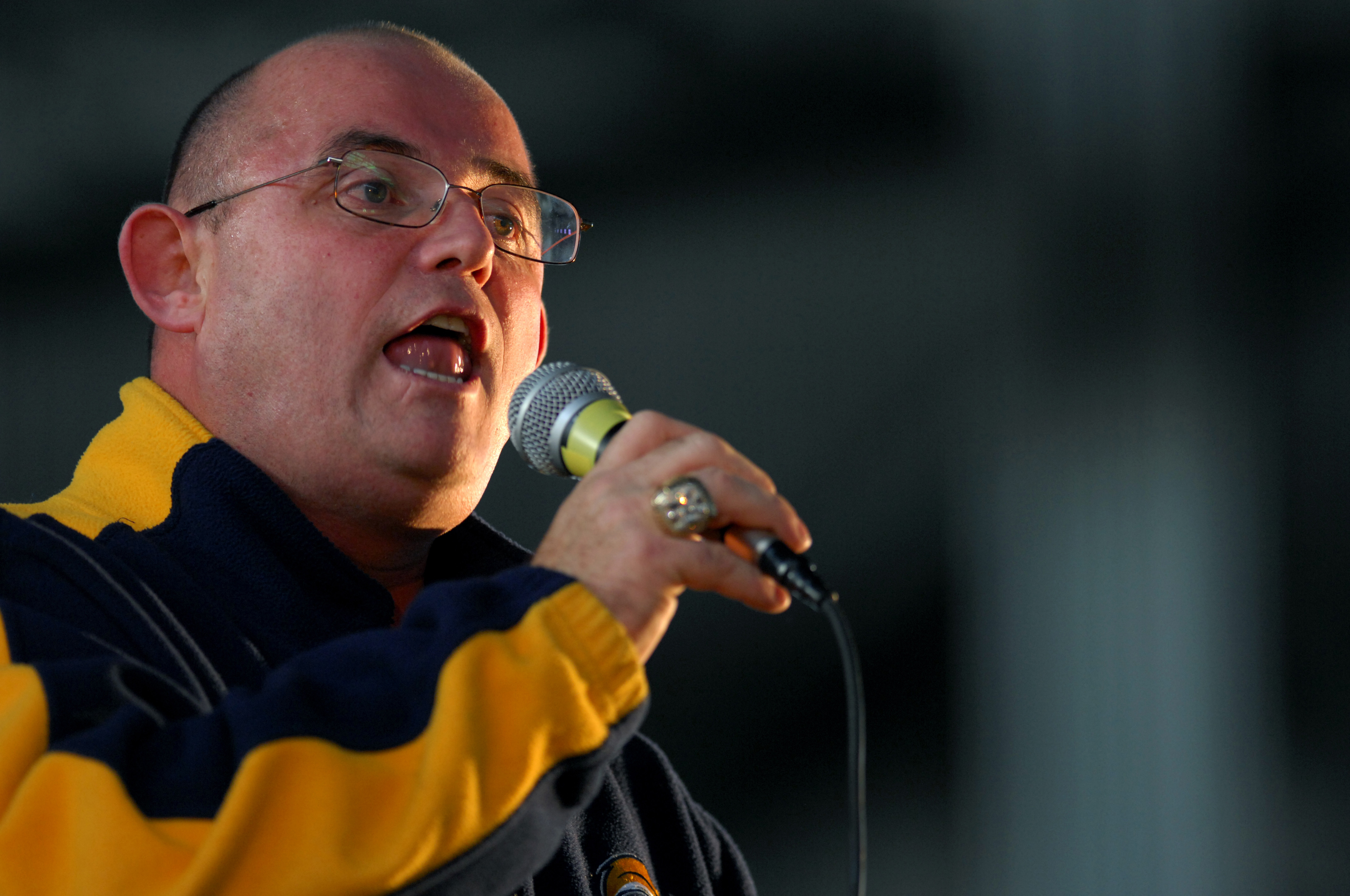 Irish tenor Ronan Tynan sings Amazing Grace during a United Service Organizations (USO) holiday show held for the Aviano Air Base community. ID: 071222-F-3431H-032